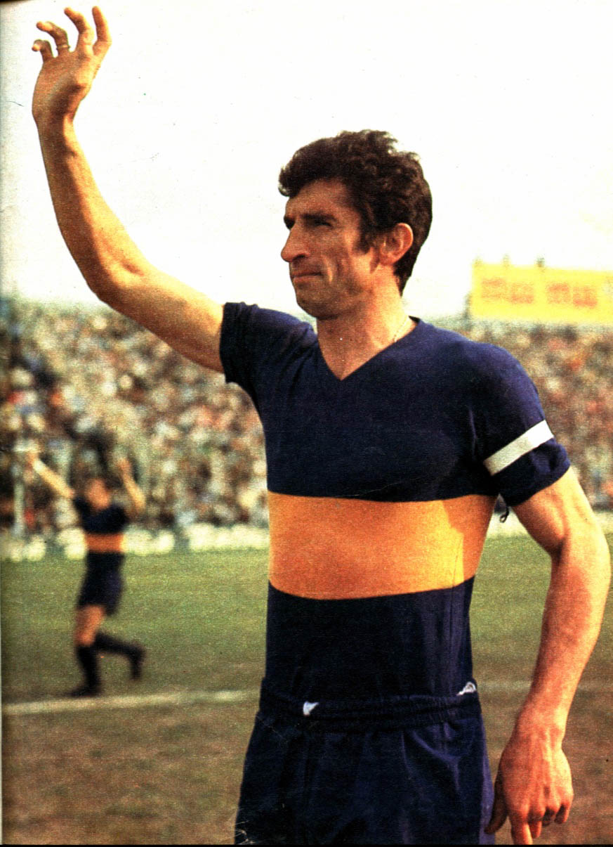 Boca Juniors footballer, Antonio Rattín, waving the crowd while playing with the club. Rattín is widely recognised as one of the most notable players in Boca Juniors' history.